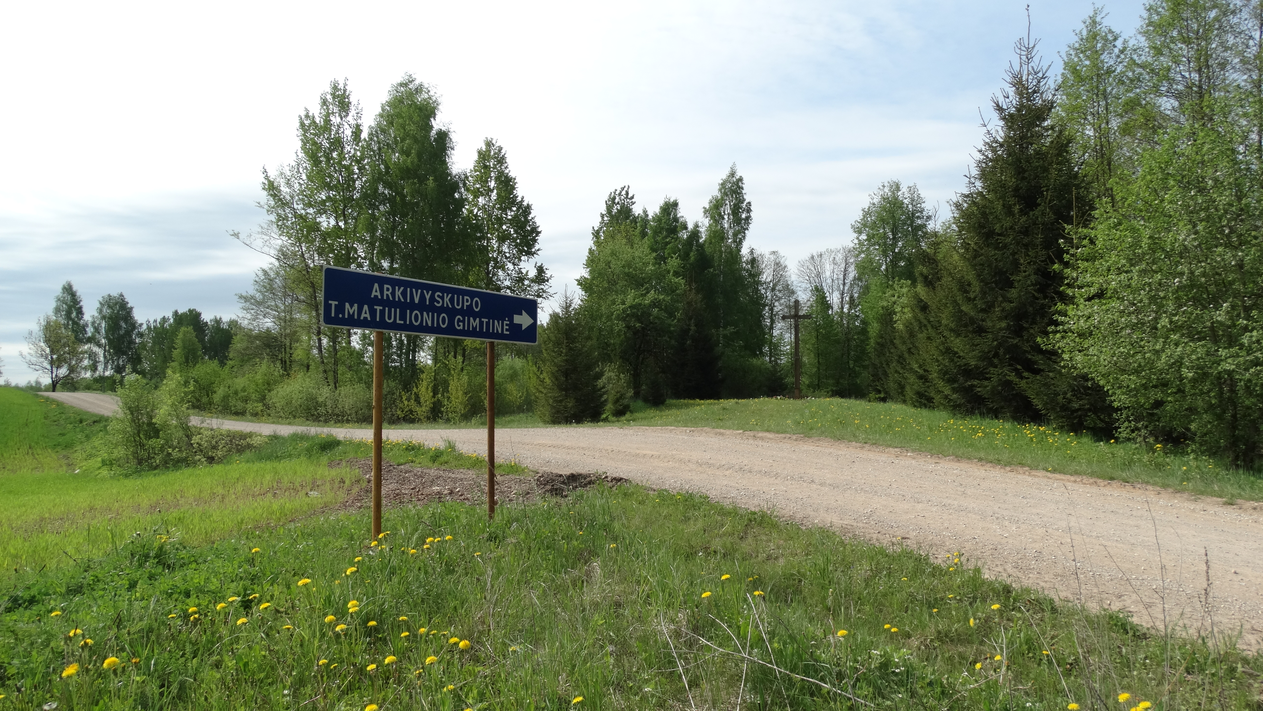 Kudoriškis, Anykščiai District, Lithuania